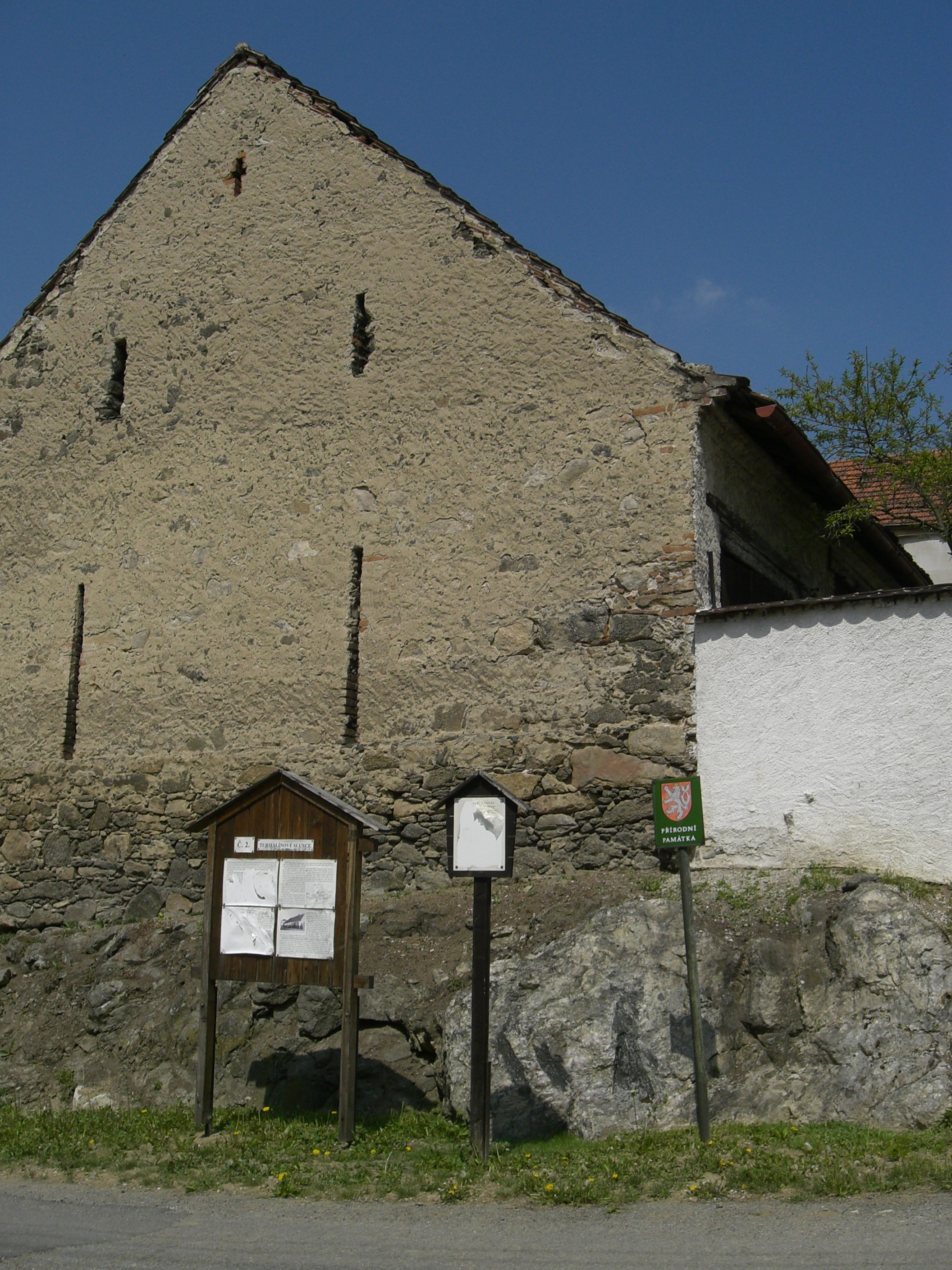 Protected area Myšenecká slunce in Myšenec village, Písek district, Czech Republic. In the location is big crystals of skoryl.